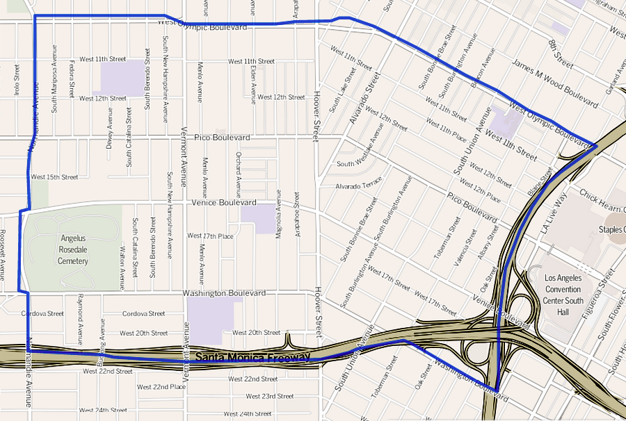 Map of the Pico-Union neighborhood of Los Angeles, California. Located southwest of Downtown Los Angeles. As delineated by the "Los Angeles Times".